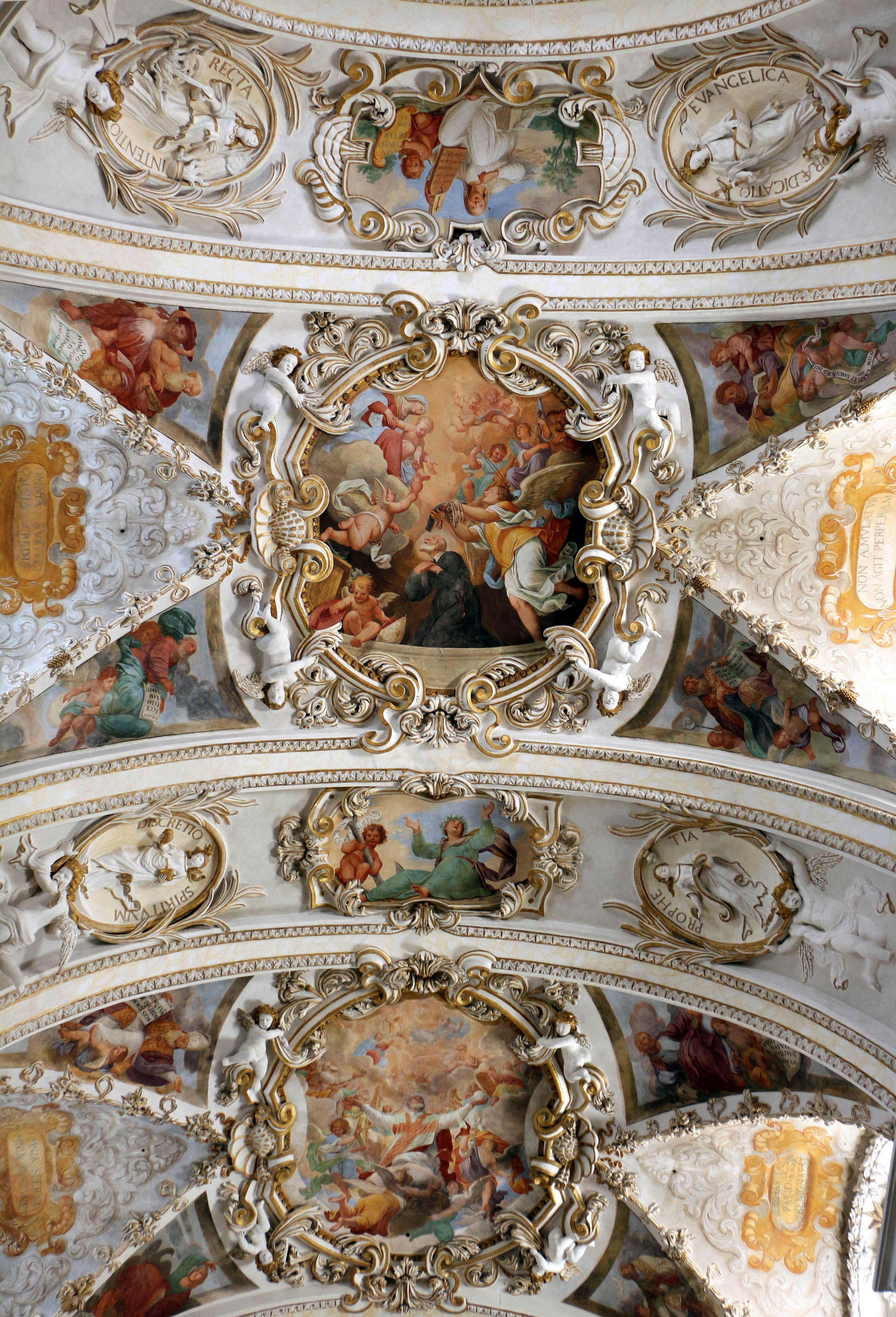 San Filippo Neri (Cingoli)